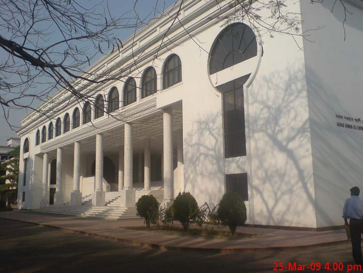 Nawab Ali chowdhury senate bhobon Dhaka University